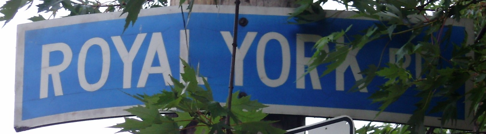 A sign for Royal York Road, partially hidden by foliage, at its intersection with Lake Shore Boulevard in Etobicoke, Ontario, Canada.